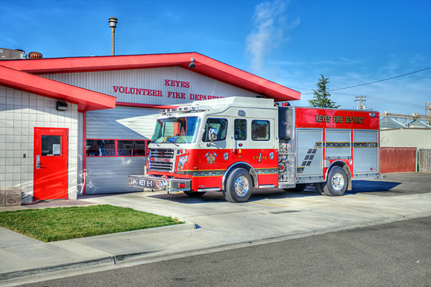 KEY E-1